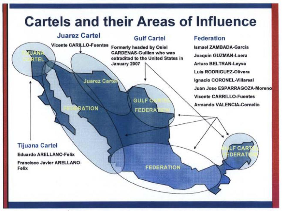 The Merida Initiative, a U.S. Counter-Narcotics Assistance to Mexico.